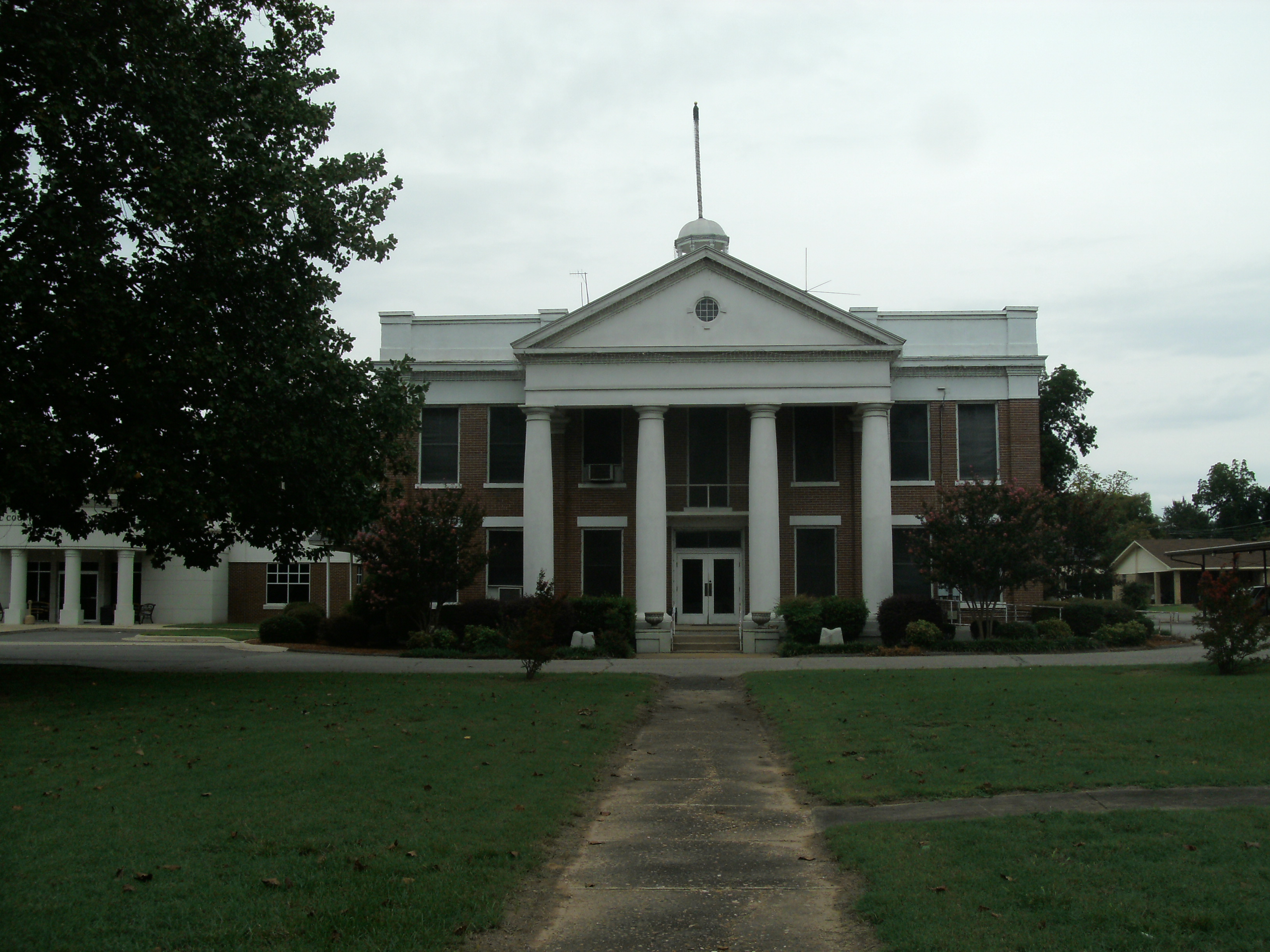 Yell County Courthouse